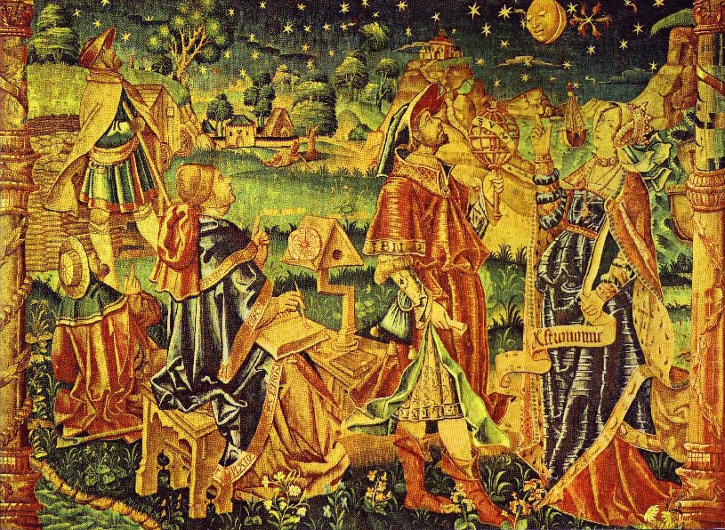 Unknown people watching the sky. Because of the fine artwork, it probably shows a famous astronomer. It illustrated the Patrick Moore's book Watchers of the stars.